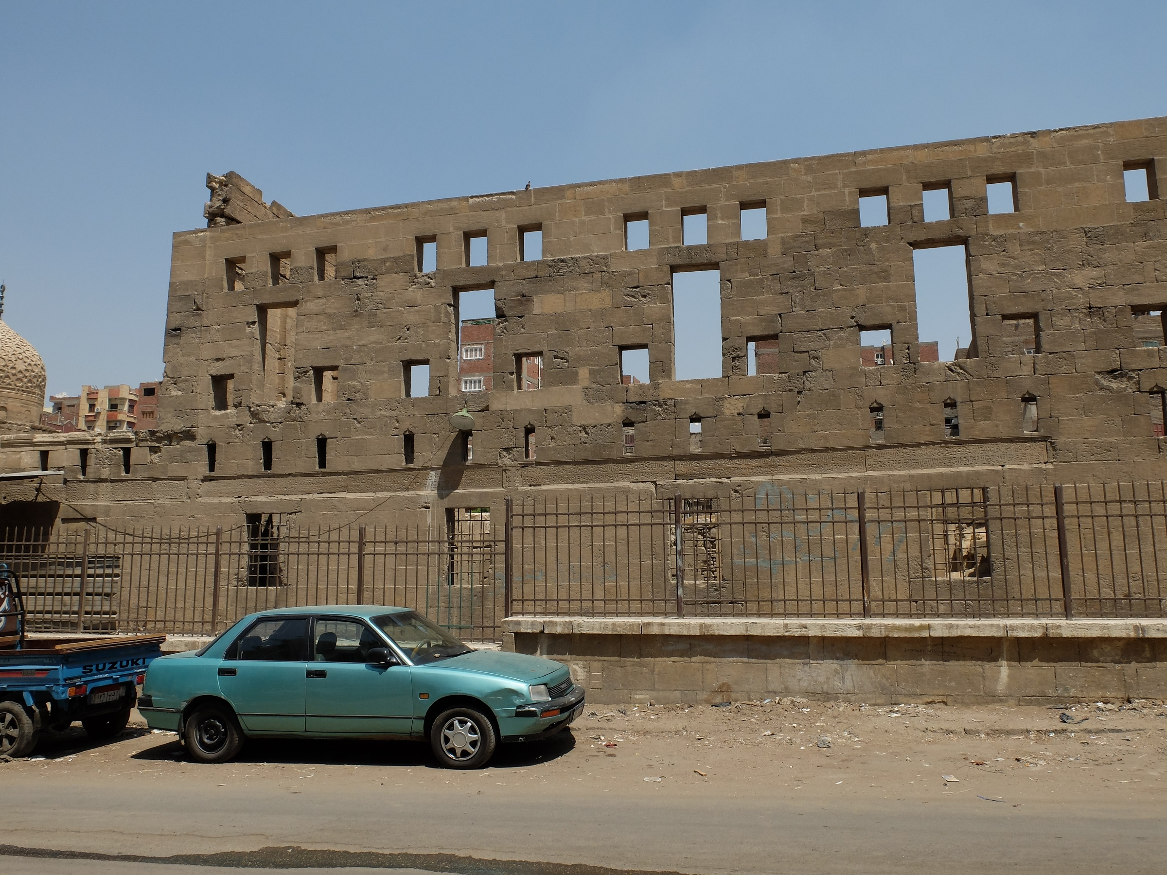 Ruins of the khanqah or Sufi lodgings of the Complex of Barsbay in the Northern Cemetery, Cairo.